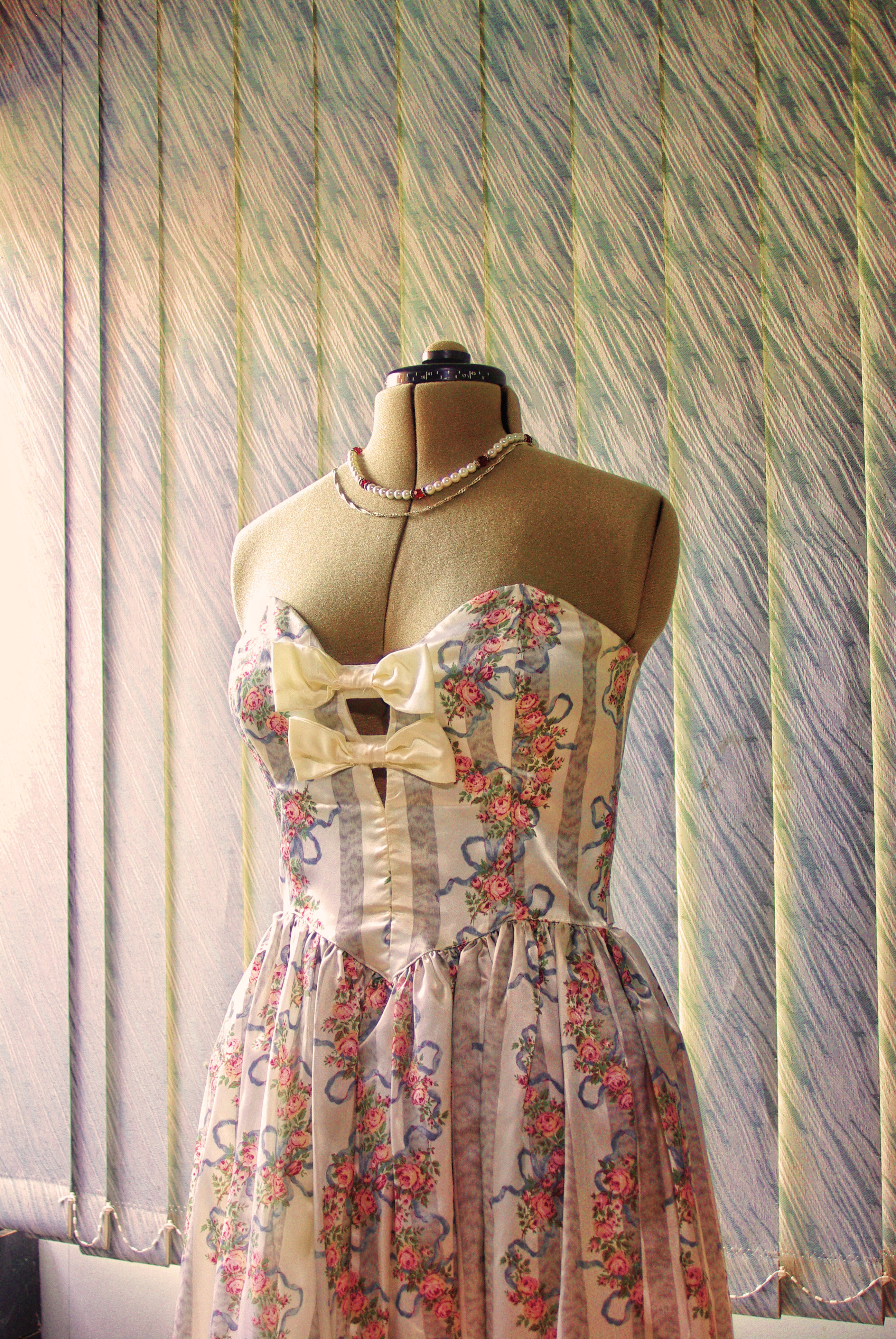 A dress by Gunne Sax, on a dress form.